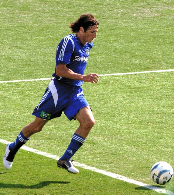 American Frankie Hejduk playing for the Major League Soccer side in the 2005 MLS All-Star Game, by Rick Dikeman